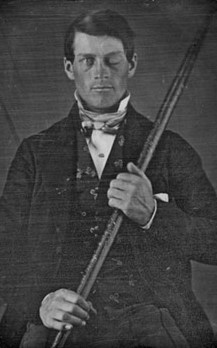 Photograph of cased-daguerreotype studio portrait of brain-injury survivor Phineas P. Gage (1823–1860) shown holding the tamping iron which injured him. BW, unretouched. Based on original photograph from the collection of Jack and Beverly Wilgus, here cropped to exclude mat surrounding image. Like most daguerreotypes, the image seen in this artifact is laterally (left-right) reversed; therefore a second, compensating reversal has been applied to produce this image, so as to show Gage as he appeared in life. That this shows Gage correctly is confirmed by contemporaneous medical reports describing his injuries, as well as from the injuries visible in Gage's skull and life mask, still preserved.